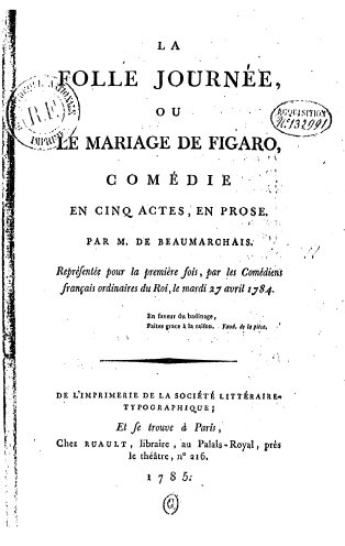 Title page from 1st edition play The Marriage of Figaro